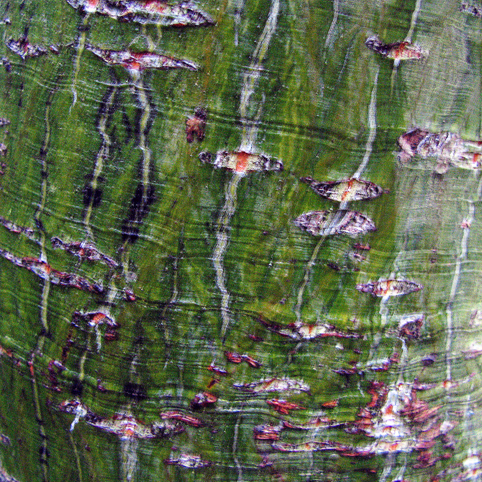 Acer capillipes bark